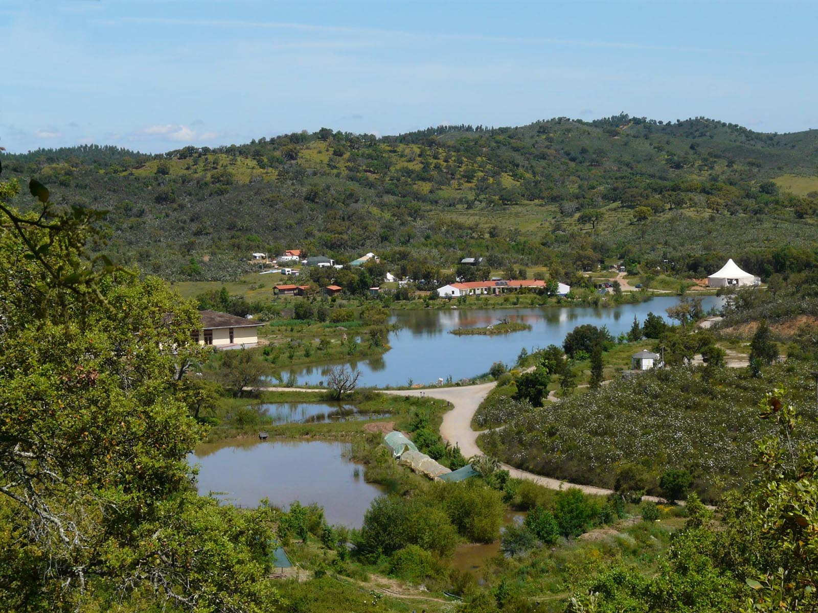 Rainwater harvesting landscape to combat desertification designed by Sepp Holzer (Tamera, Portugal)